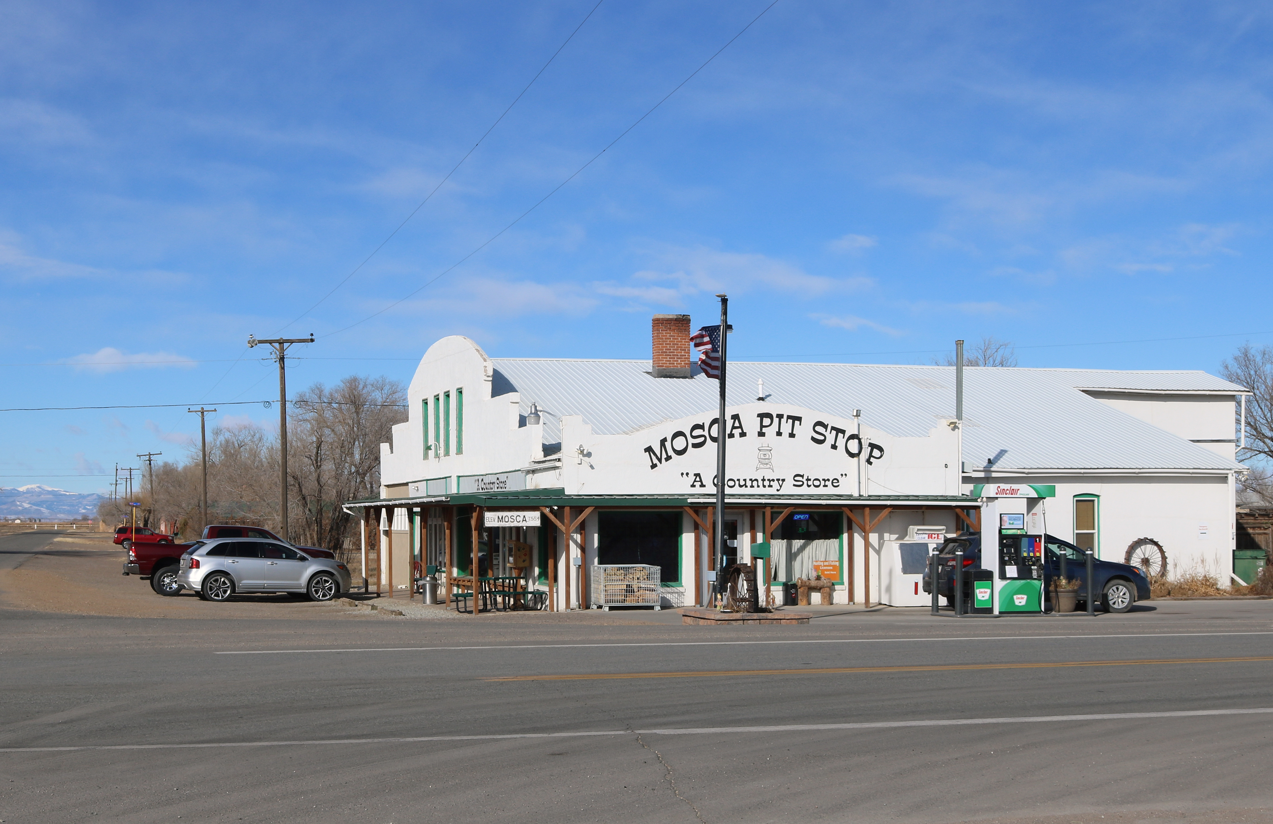 The community of Mosca, Colorado in Alamosa County. The community lies along Colorado State Highway 17.